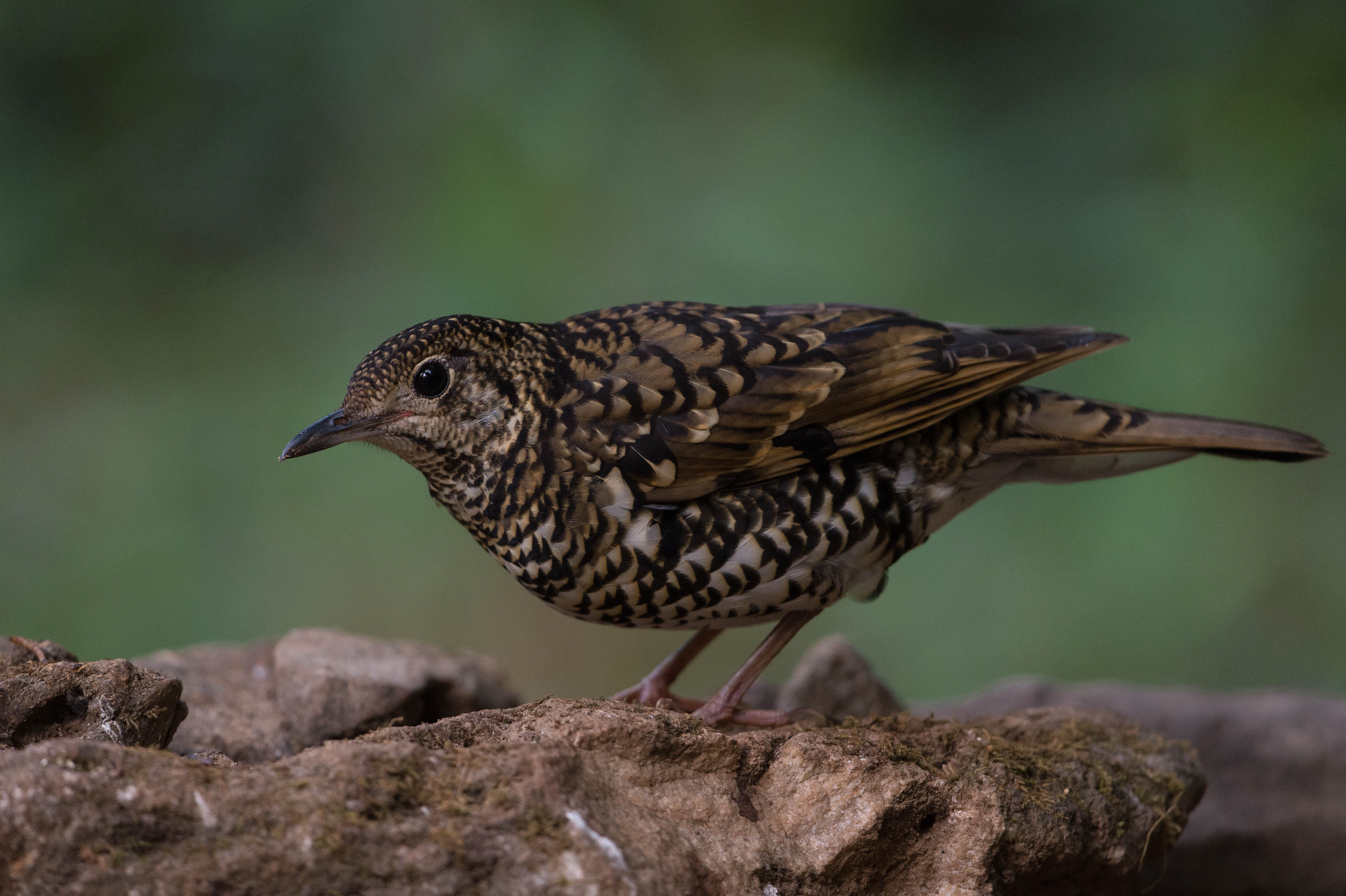 Scaly Thrush (Zoothera dauma) at Thai/Myanmar Border. Doi Ang Khang National Park, Chiang Mai Thailand